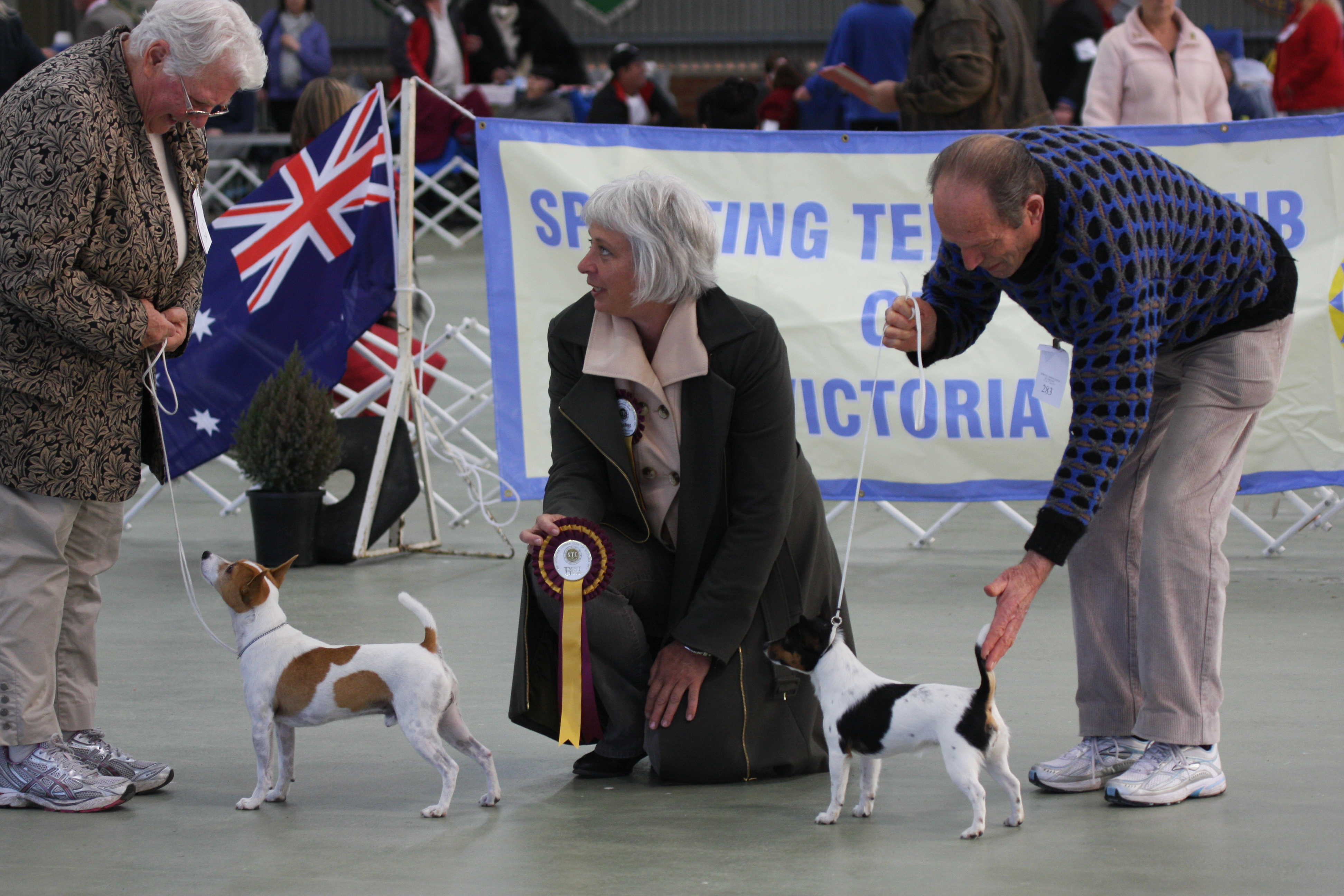 A photograph of 2 champion Tenterfield Terriers showing a tan and white and tri-colour Tenterfield Terrier.